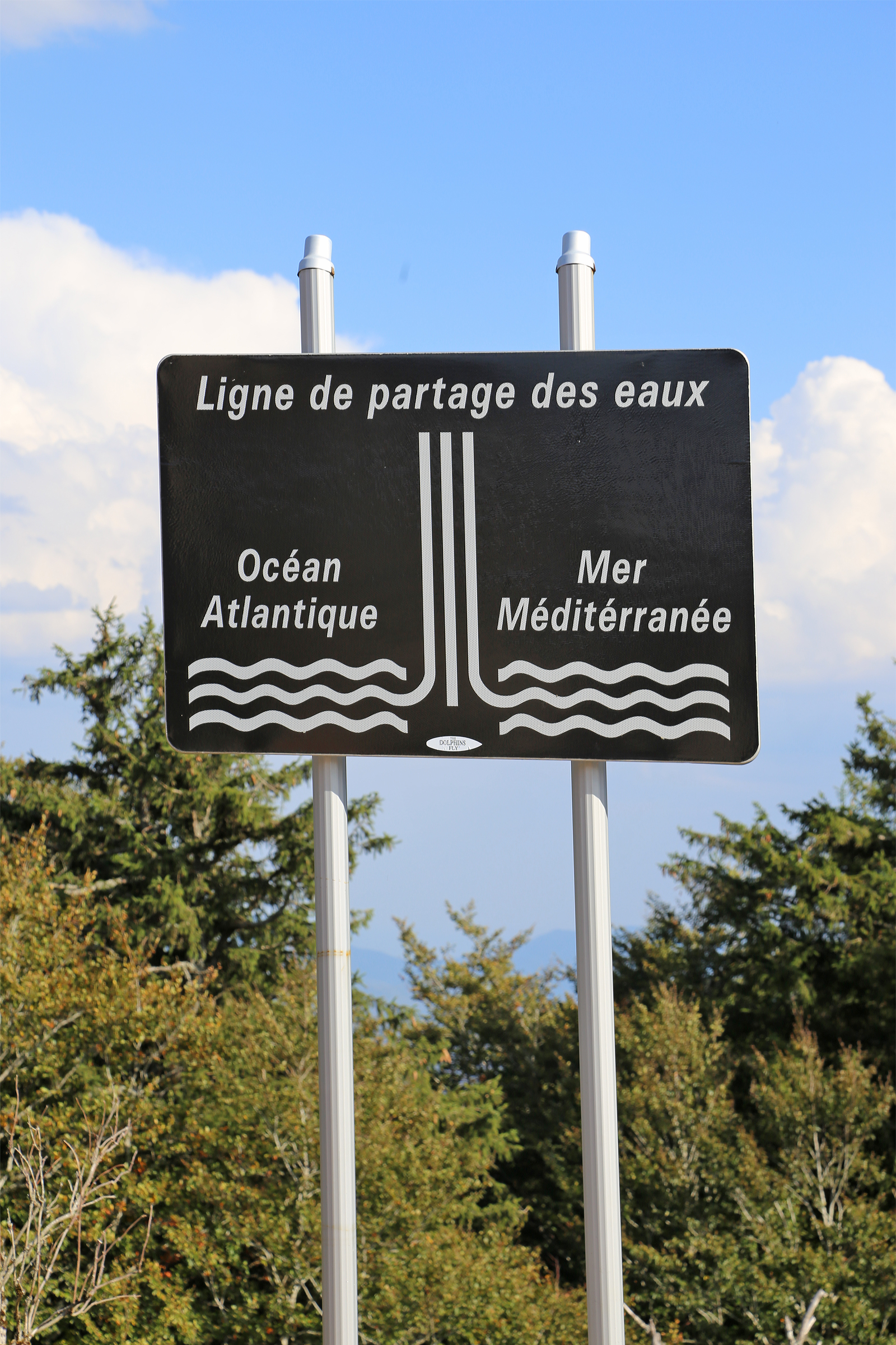 Watershed at Col de la Serreyréde L'Esperou, Causses Cévennes (Mont Aigoual).